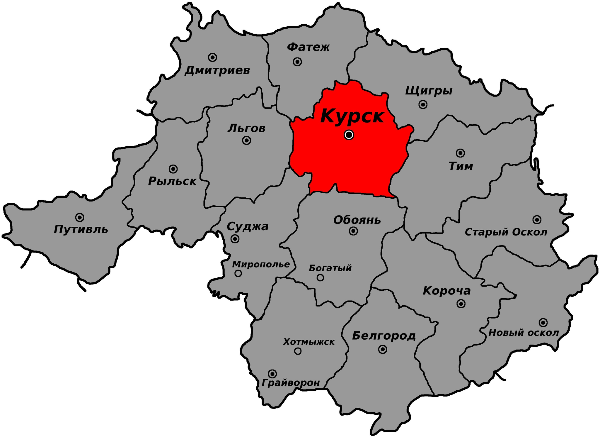 Kursk gubernia (Russian empire), Kursky_uyezd